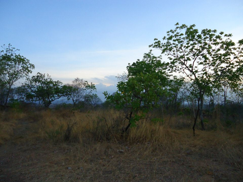 Floristic physiognomy of cerrado in the Salgado River's Canyon